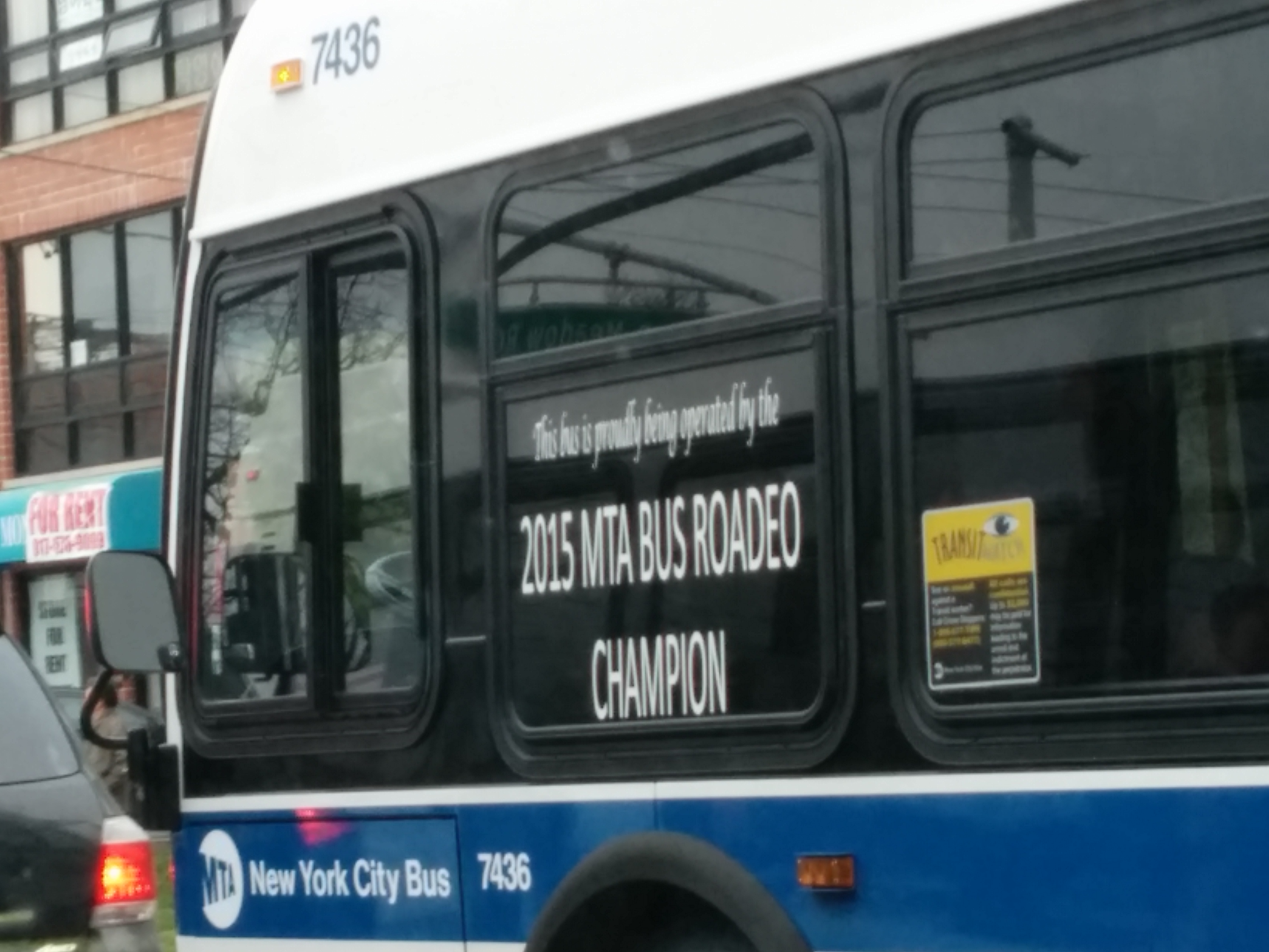 A decal reading "This bus is proudly being operated by the 2015 MTA Bus Roadeo Champion" on the side of a New Flyer Industries XD40 "Xcelsior" bus.